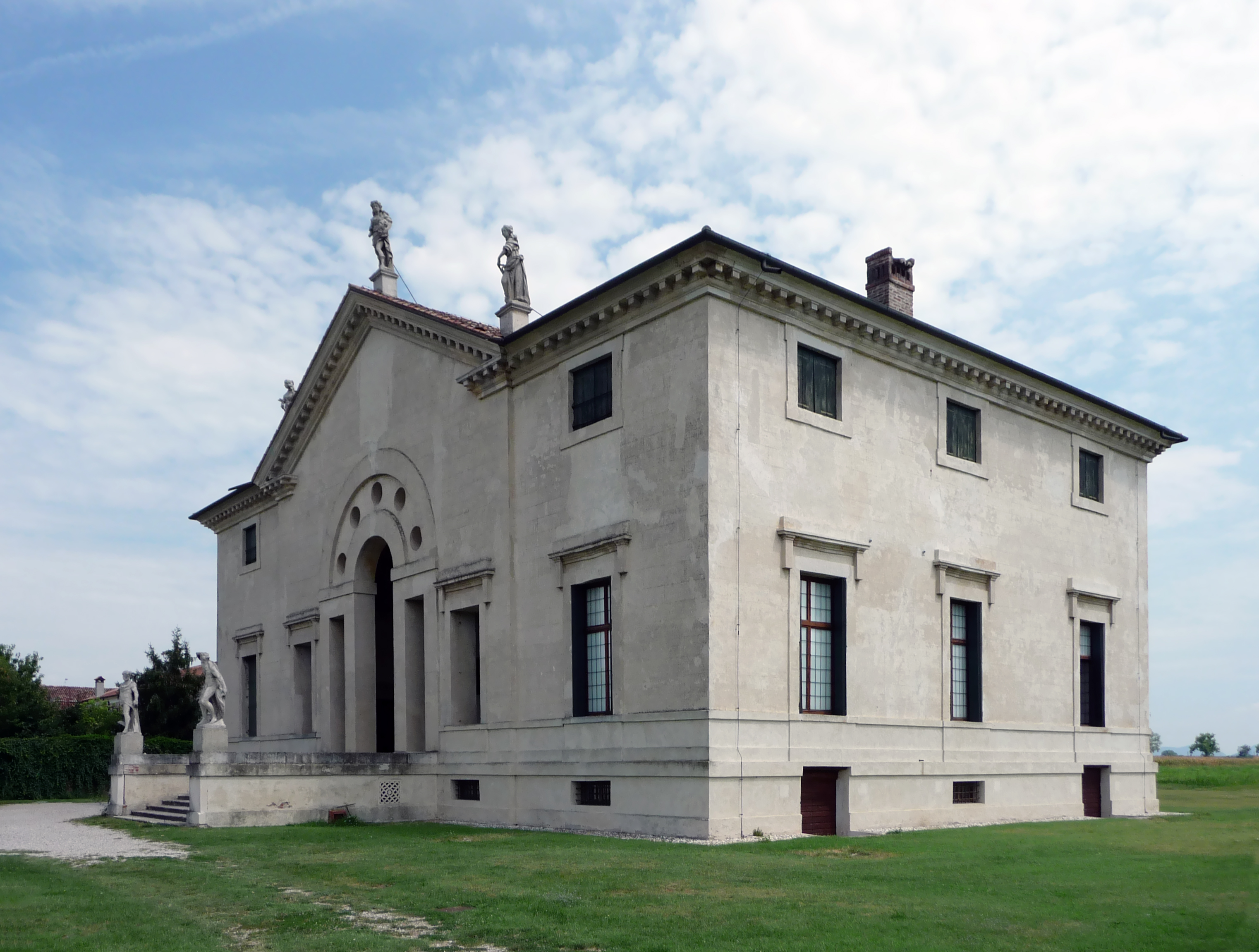 Villa Pojana is a patrician villa in Pojana Maggiore, a locality of the Veneto region of (northern Italy). It was designed by the Renaissance architect Andrea Palladio.